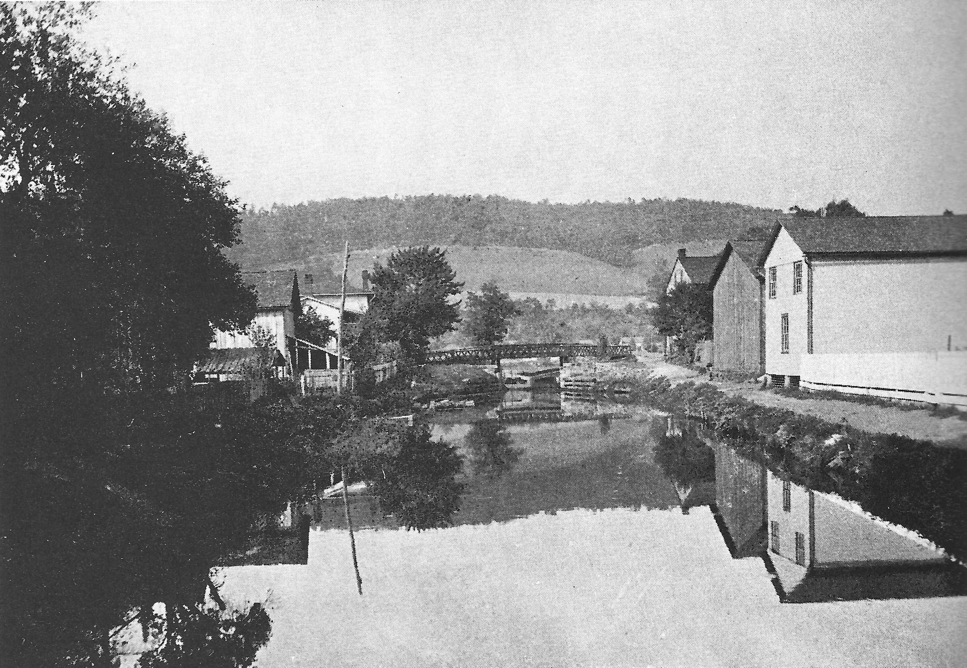 Bald Eagle Crosscut Canal in Lock Haven, Pennsylvania, United States, in the late 19th century. View is north along the canal from Main Street.